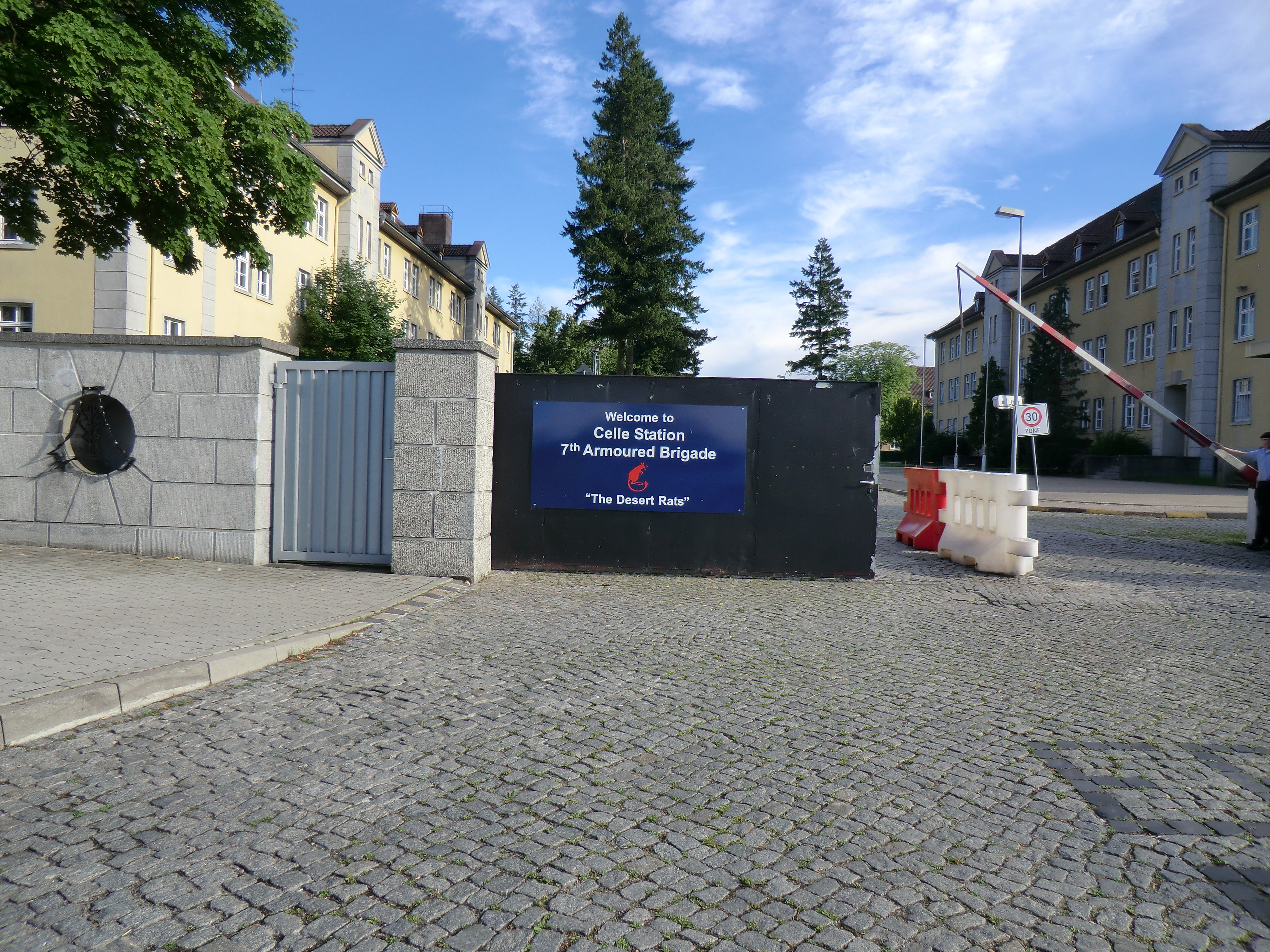 Sign an the britsh barraks in Celle. It refert to the tradition of the 7th Armoured Brigade and the Desert Rats.